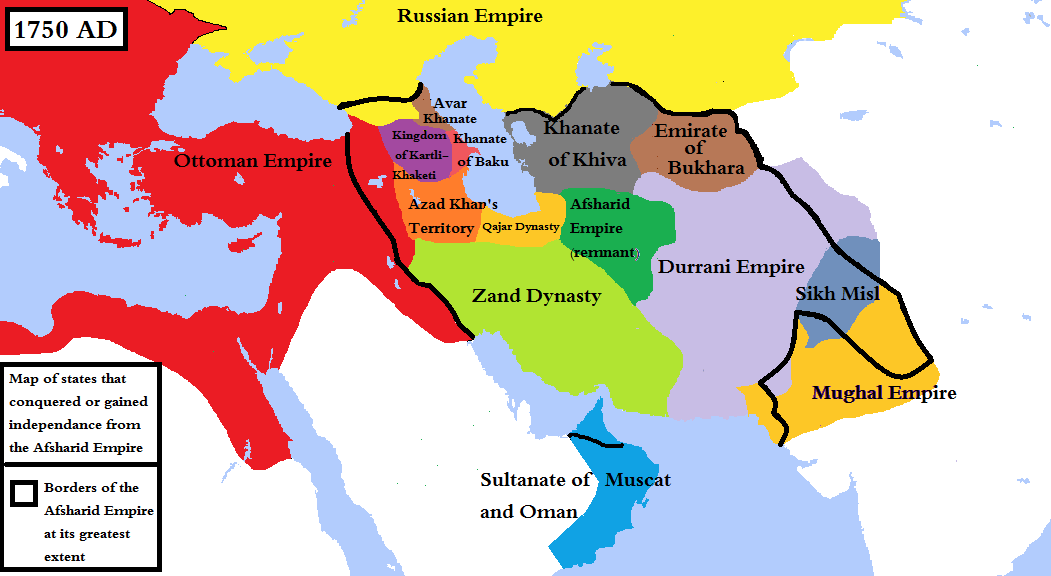 Map of empires that succeeded the afsharid empire, or took some of its territory